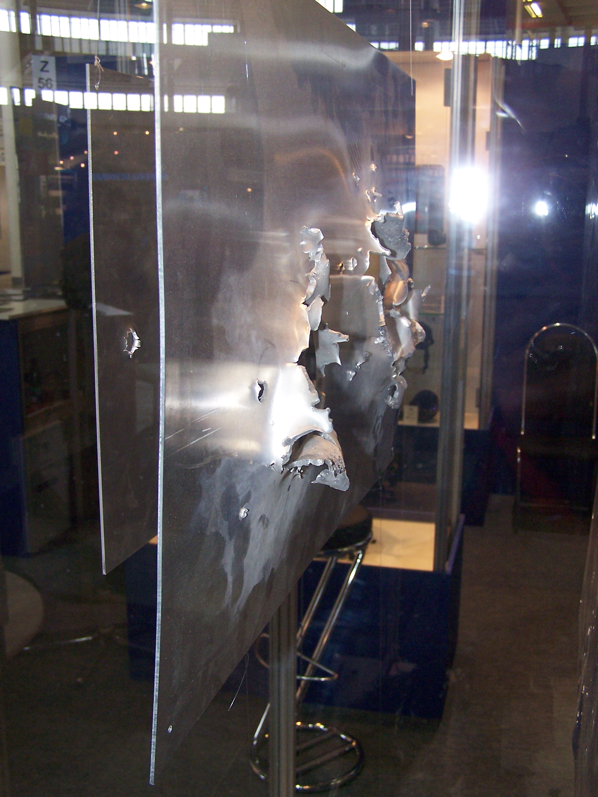 Metal plate after being penetrated by an explosion